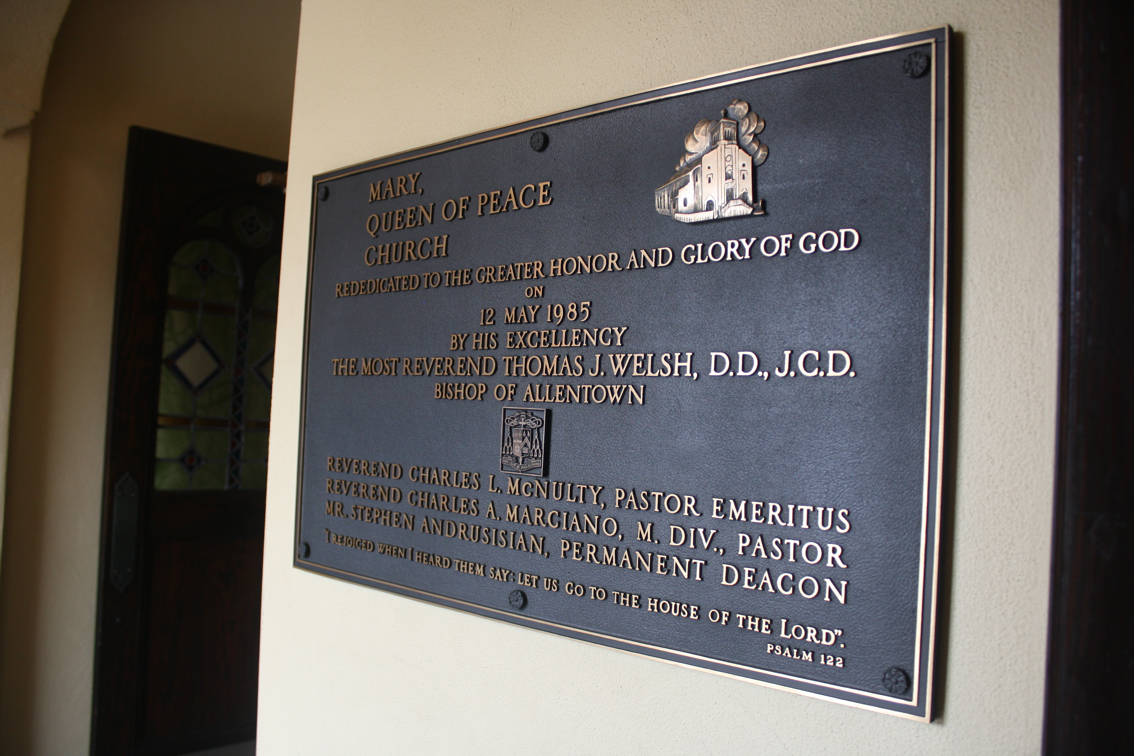 Mary, Queen of Peace Catholic Church, Pottsville, Pennsylvania Rededication Plaque